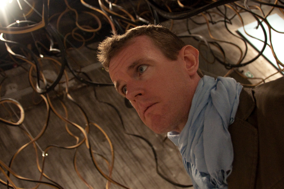 Photo of electronic music artist Simon Berry, also known as Art of Trance, at the Venice Biennale. Berry has released music as Poltergeist and Vicious Circles as well as in groups including Union Jack, Clanger and Conscious.